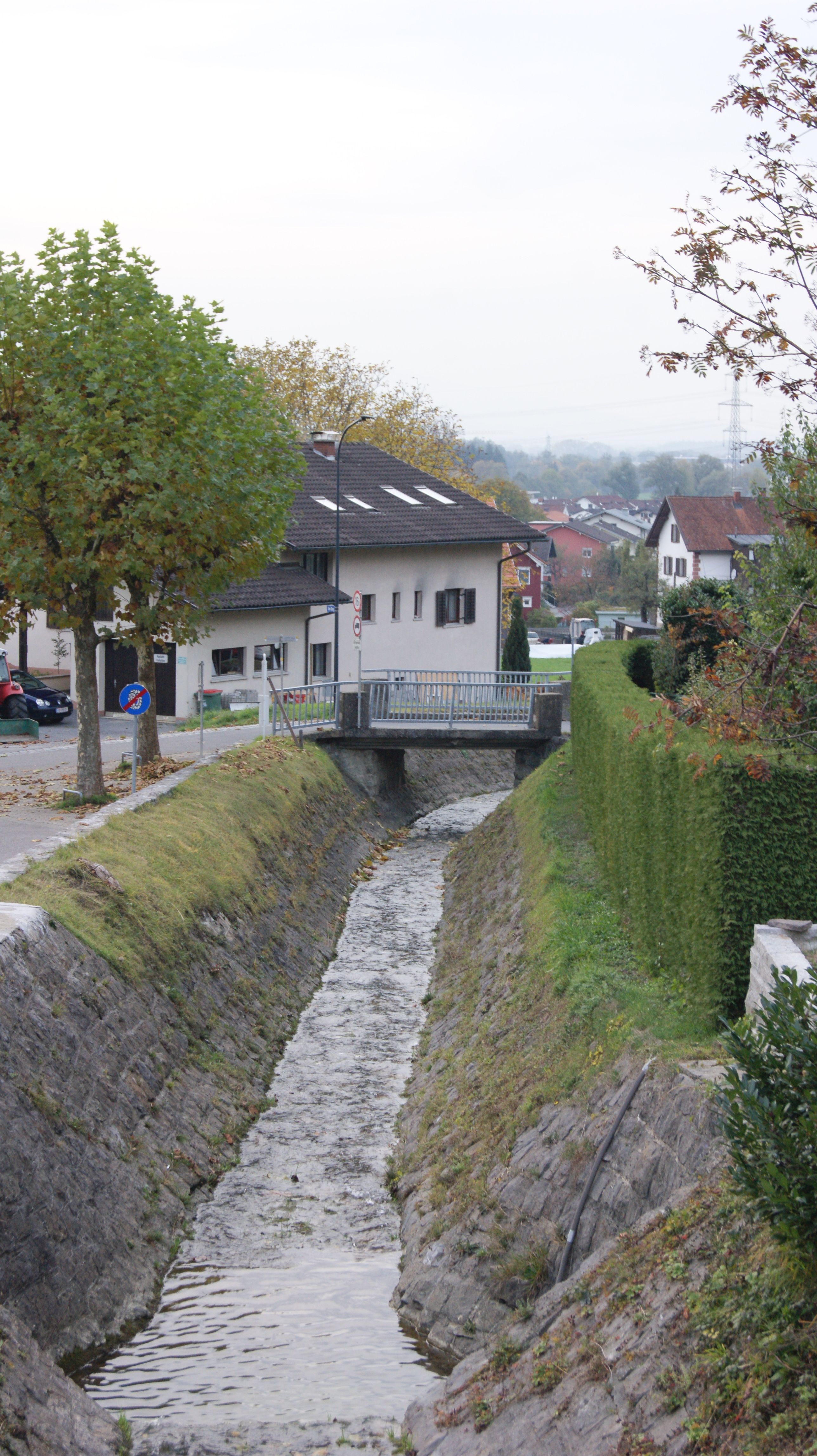 River "Minderach" in Schwarzach, Vorarlberg, Austria.